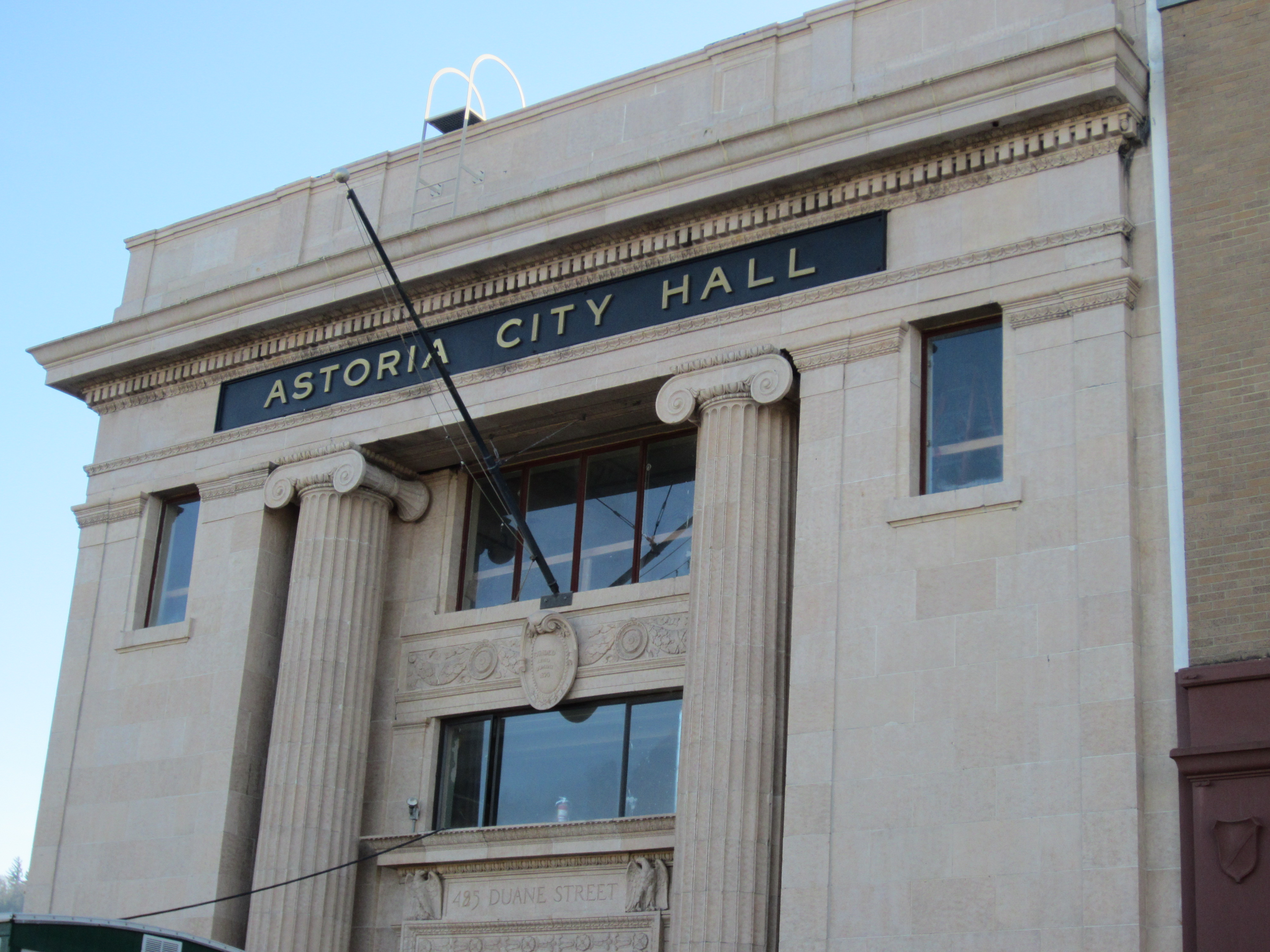 Astoria City Hall in December 2011